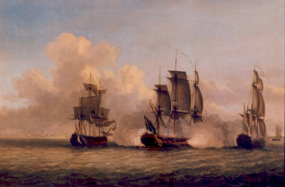 Capture of the Spanish ships Thetis and Phenix by the Alarm in the West Indies, by Dominic Serres. Capture of the Thetis and Phenix, c1770. The Spanish ships Thetis and Phenix were captured by the Royal Navy frigate HMS Alarm off Havana on 2 June 1762. A lithograph of this scene is in Old Naval Prints, by Charles N. Robinson & Geoffrey Holme. The Studio Limited, London, 1924.